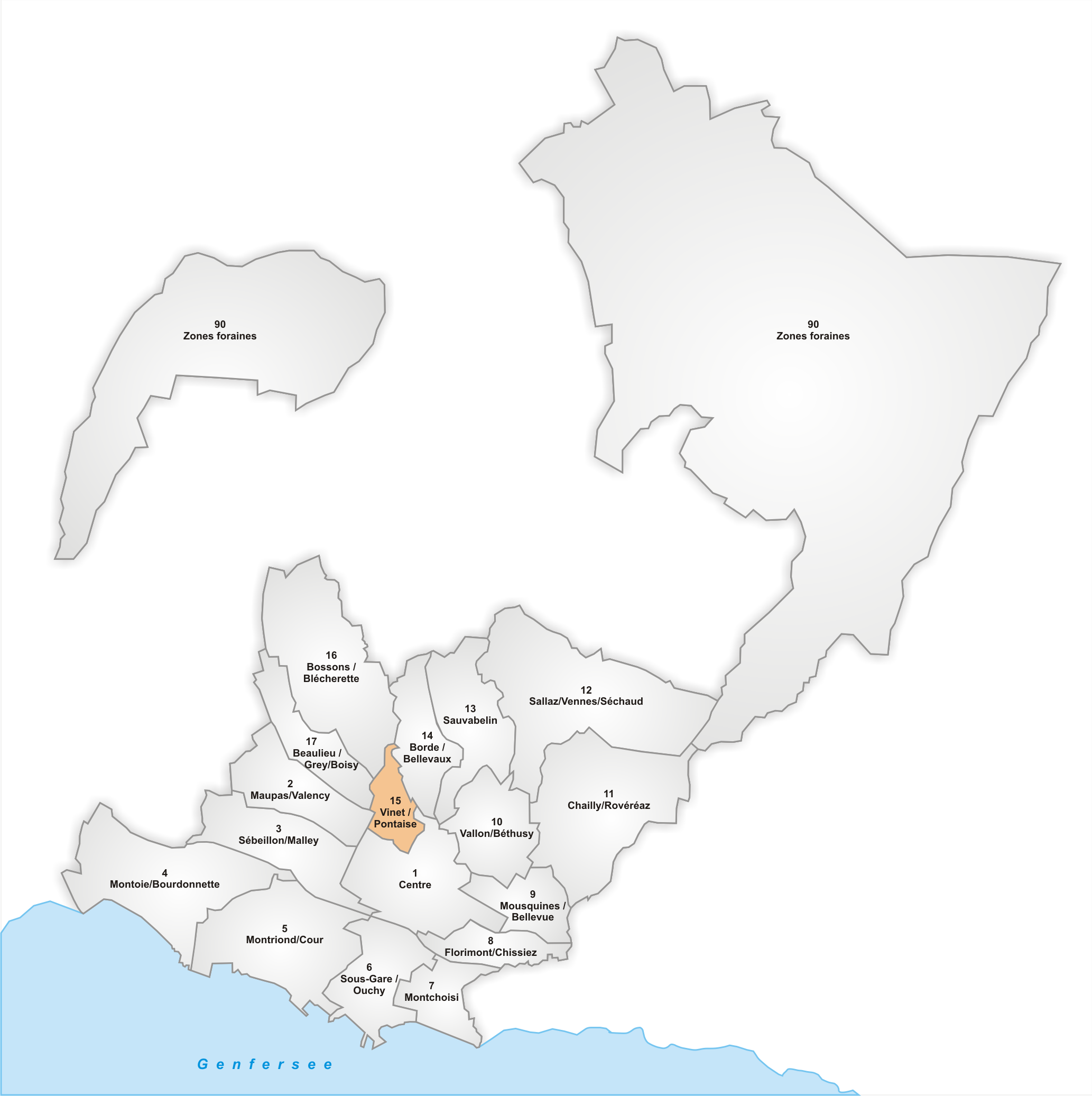 Lausanne Quarter 15